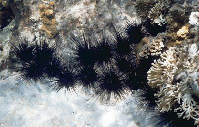 Diadema antillarum (black spiny Caribbean sea urchin) Photograph taken by Daniel P. B. Smith. Copyright ©2003 by Daniel P. B. Smith. Licensed under the terms of the Wikipedia copyright.